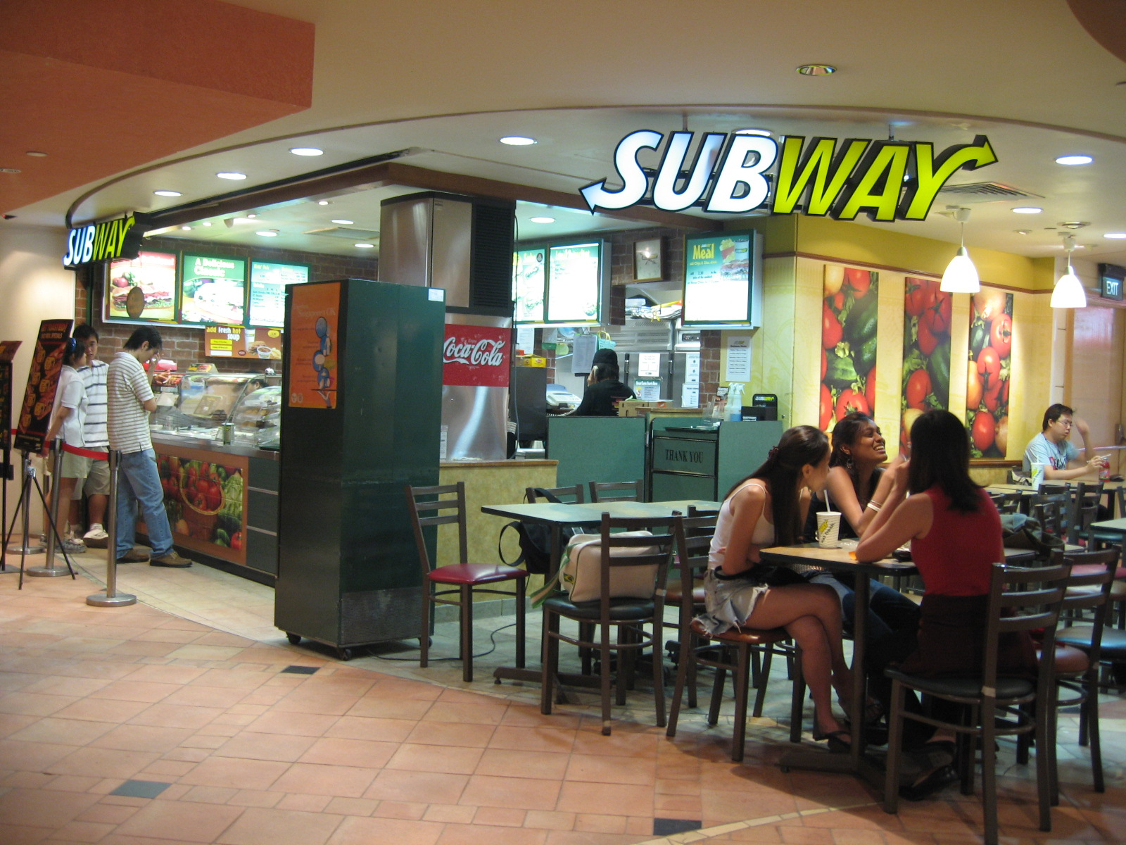 Subway restaurant at Raffles City. Taken by Terence Ong in May 2006.